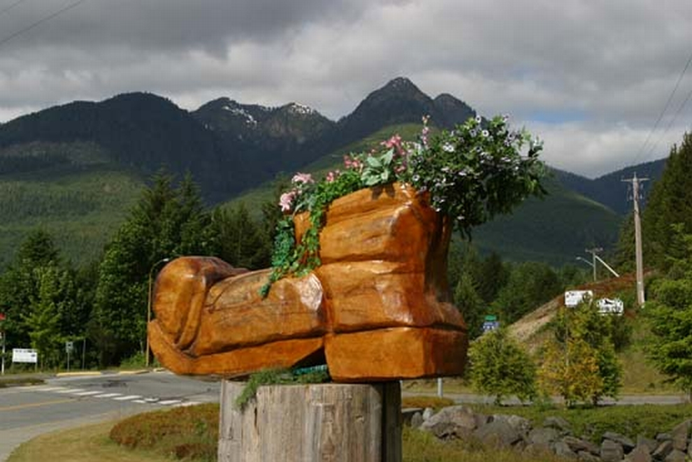 Welcome to Gold River blossoming boot, created by Chainsaw Carver Lee Yateman for the Great Walk. Author: frtzw906, Date: 2003-08